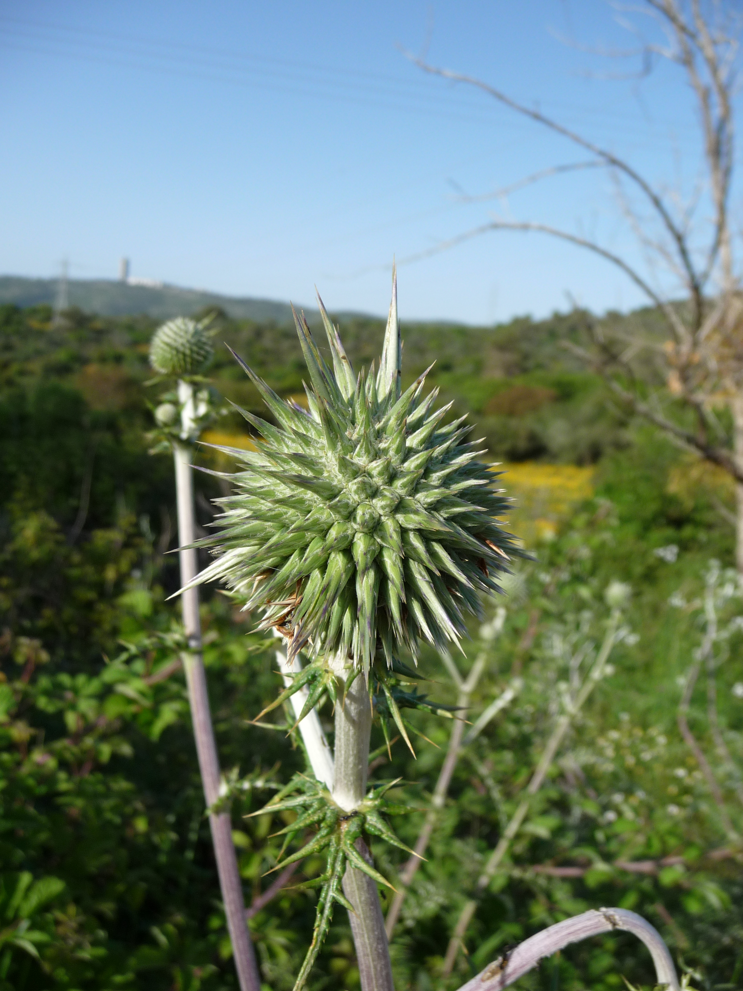 Beit Oren is a kibbutz in northern Israel. It falls under the jurisdiction of Hof HaCarmel Regional Council.